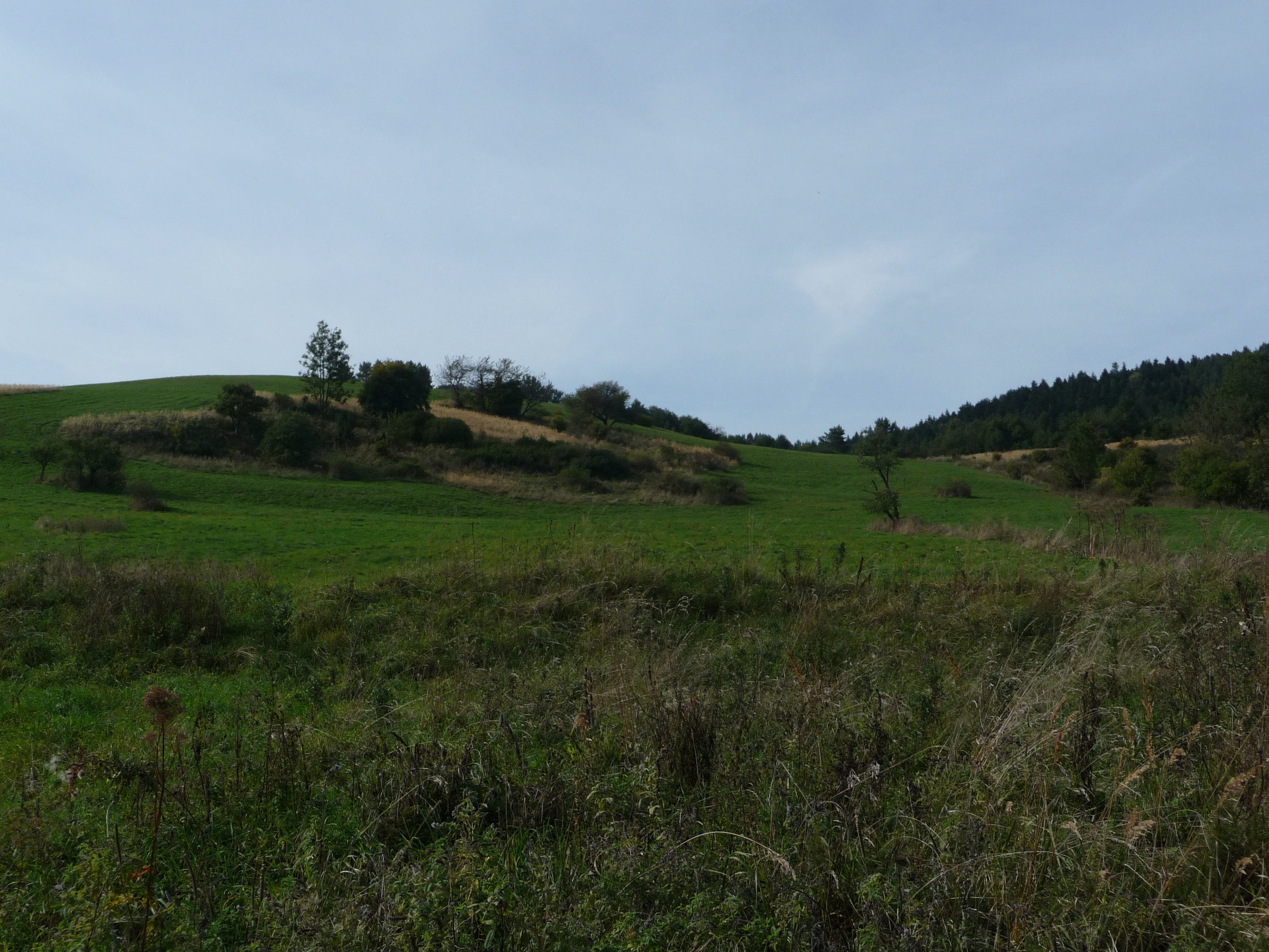 Land along the main road of Przybyszow, where homes stood before 1946.